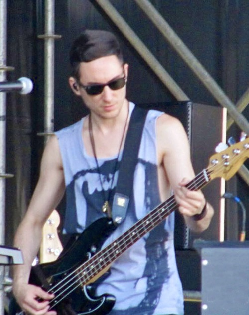 bs